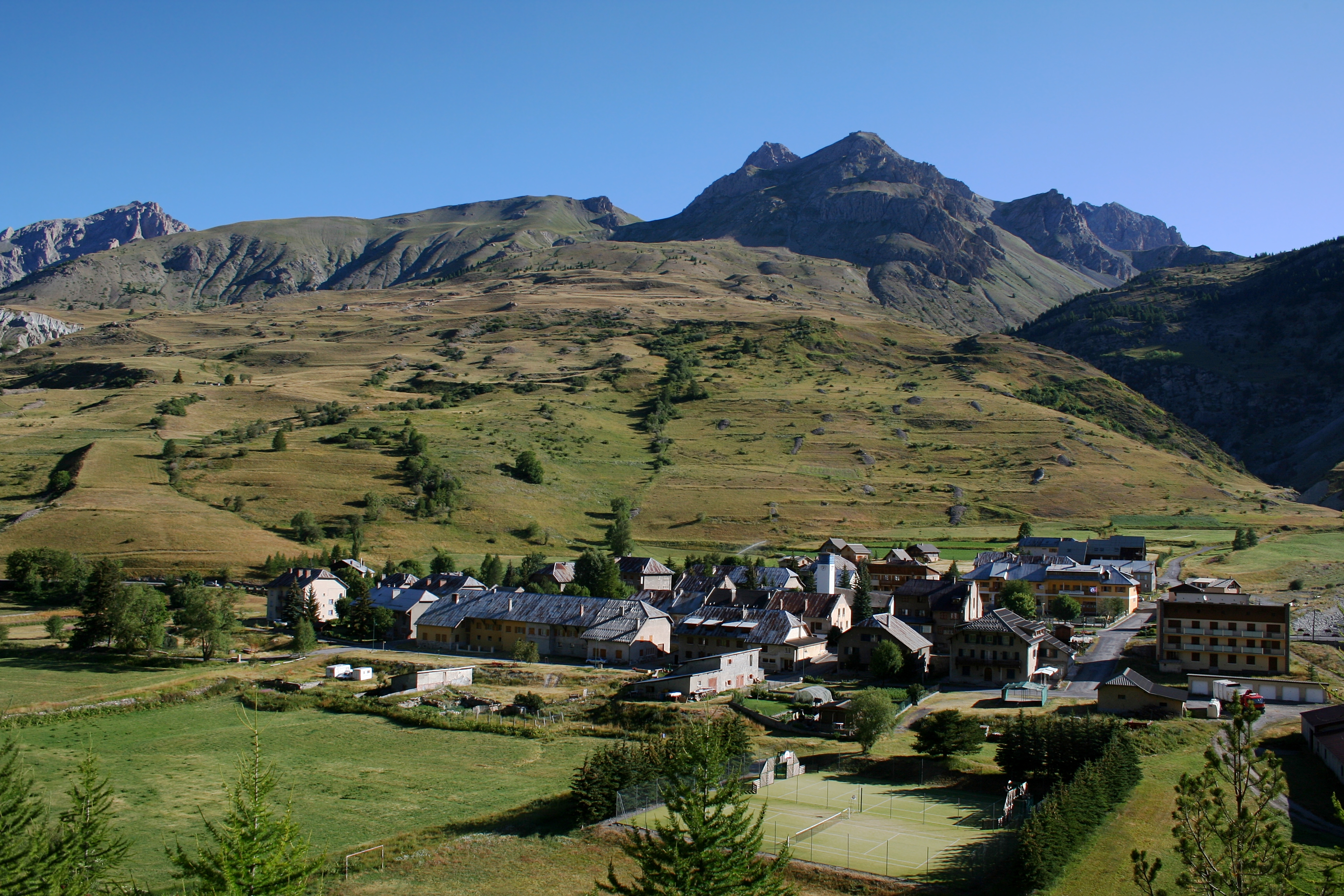 The village of Larche, in the Ubayette Valley. Alpes-de-Haute-Provence département, France. The following summits are visible behind the village, from the left to the right: The Tête des Bréquets (Litt.: Head of the Bréquets), the Côte des Chamois (Litt.: Slope of the Chamois), The Meyna, the Tête de la Virrayasse, and the Tête de Sautron.